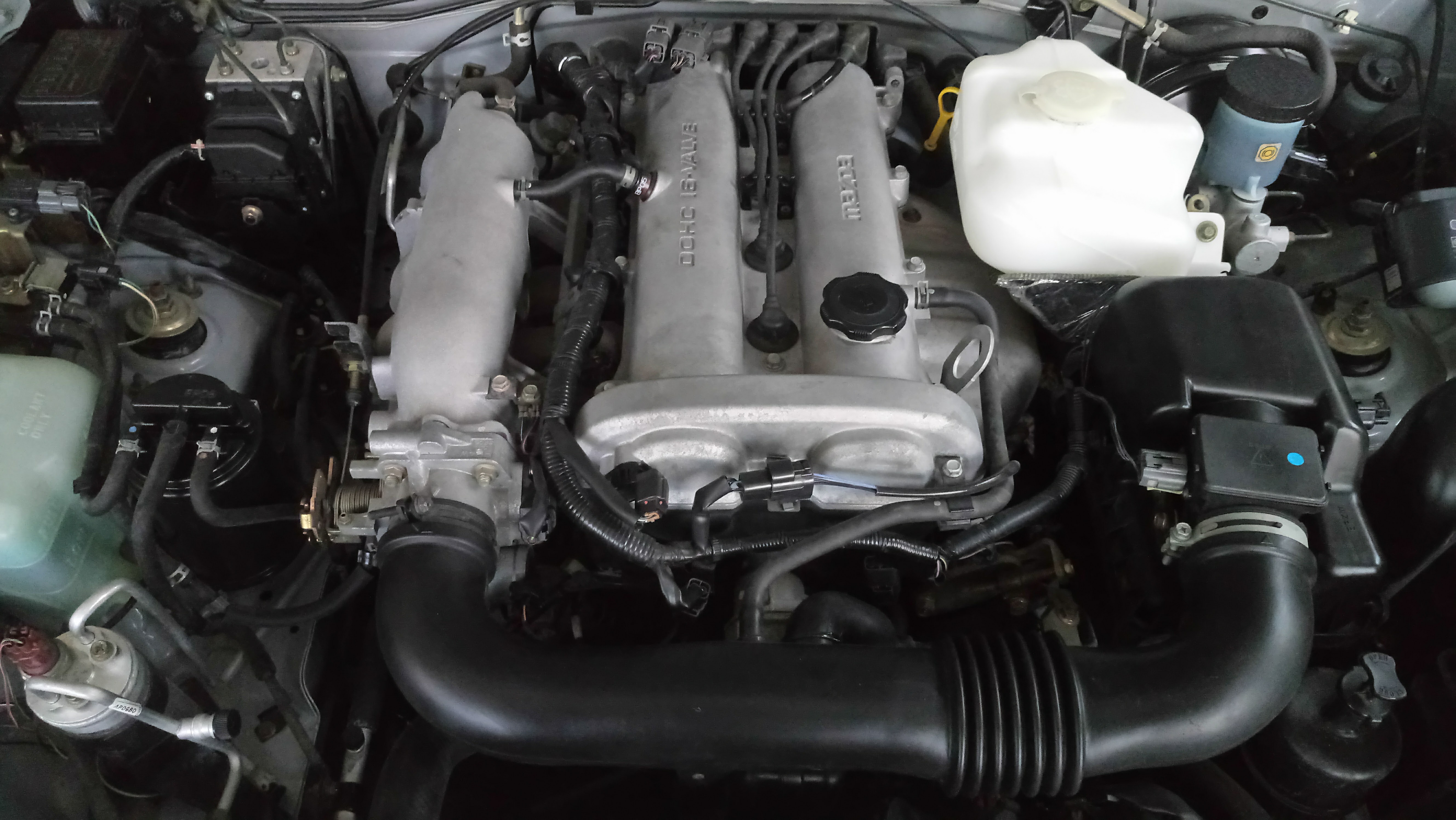 Mazda B6ZE(RS) on a '05 MX5